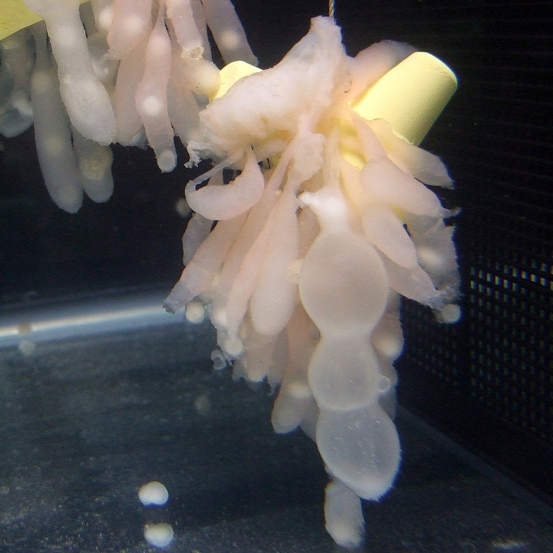 Mollusca Classis:Cephalopoda Ordo:Teuthida Familia:Loliginidae Genus: Sepioteuthis